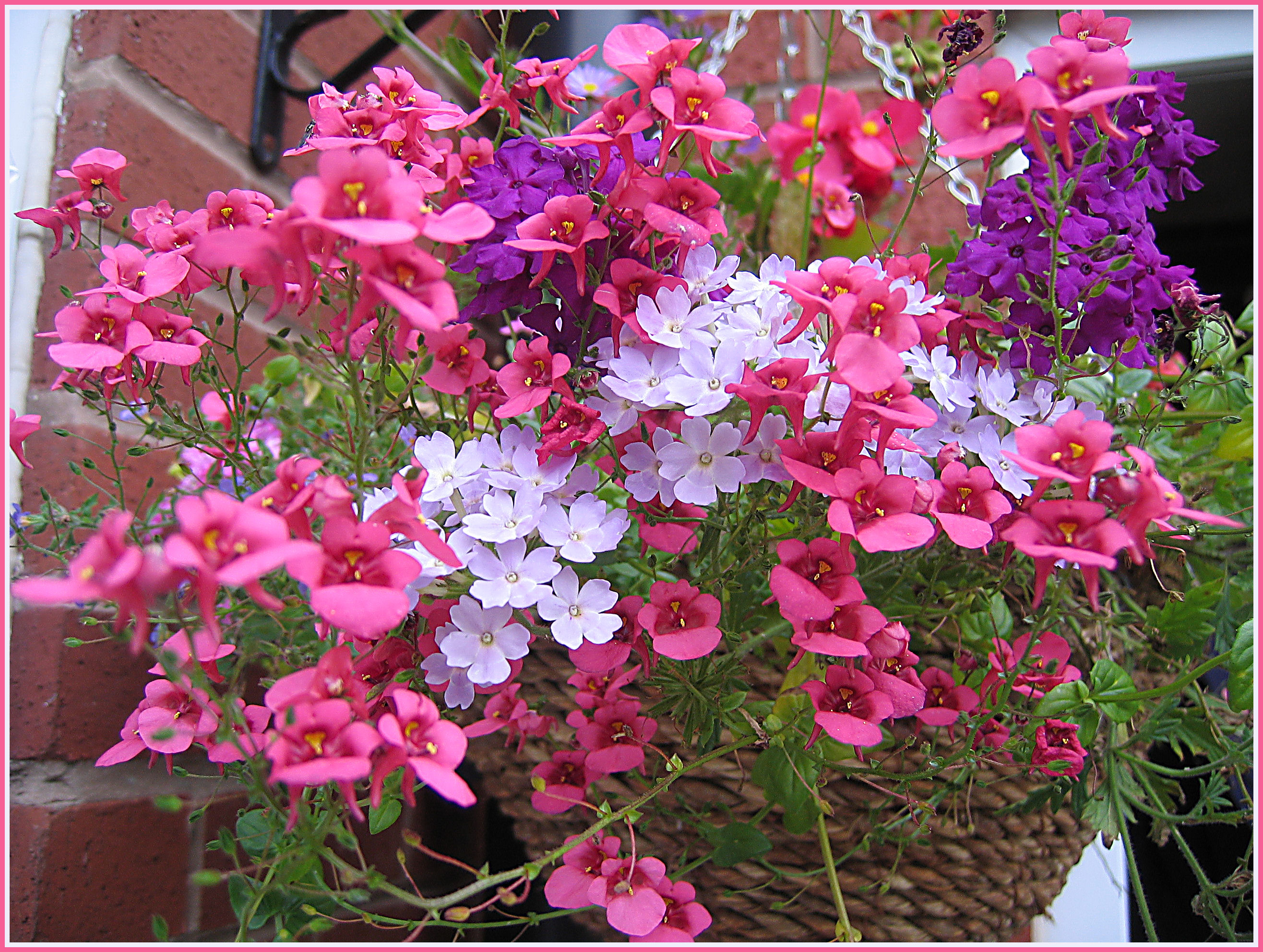 Flower basket with Twinspur, probably Diascia barberae.